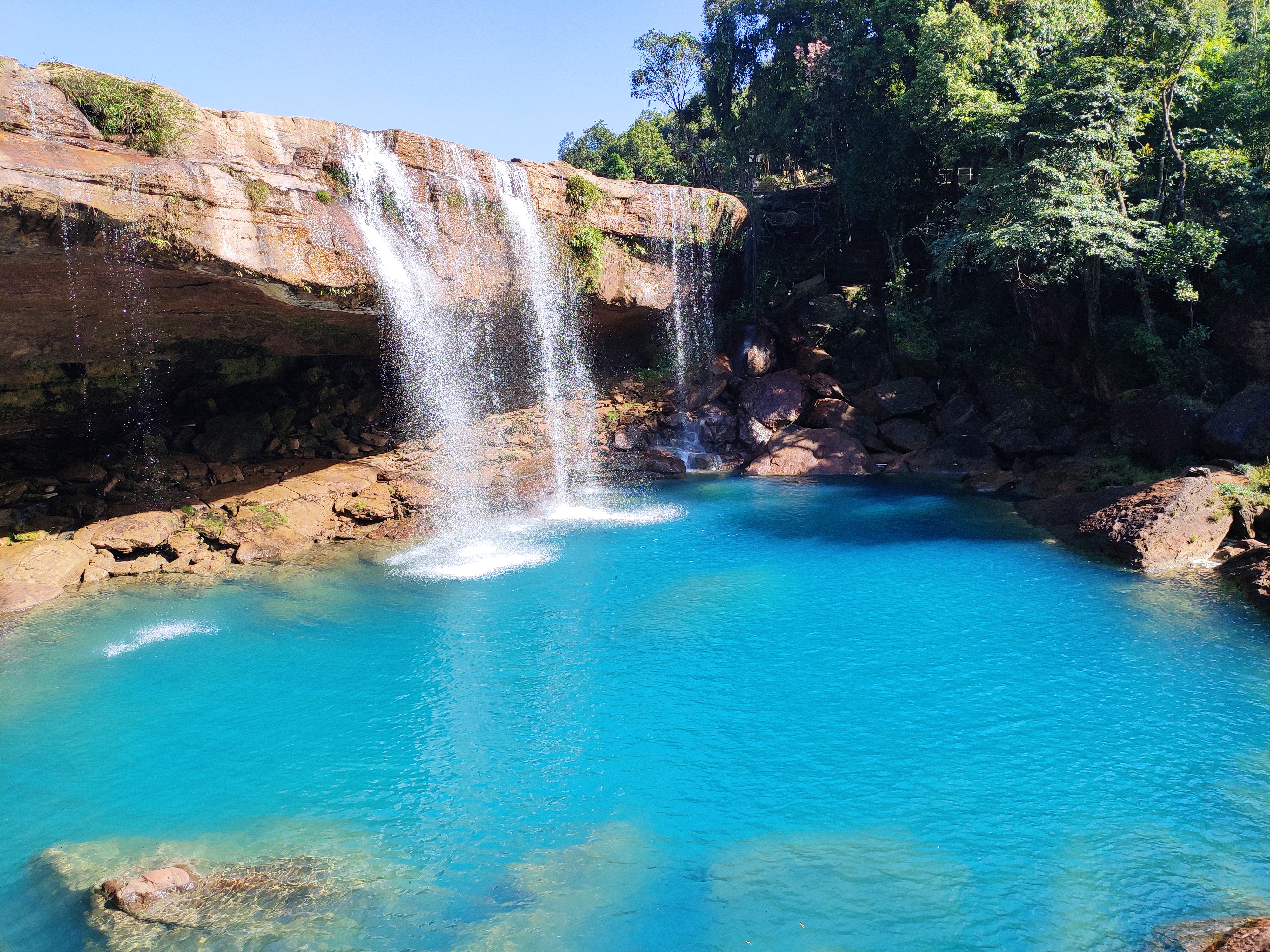 Krang Suri Waterfall in West Jaintia Hills, Meghalaya